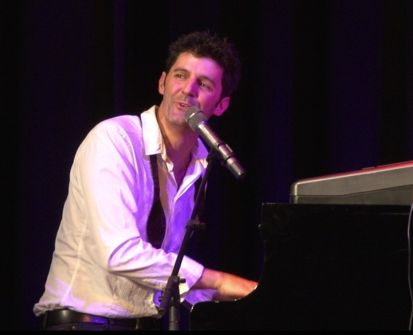 Roger Stein - Live in Goslar 2012